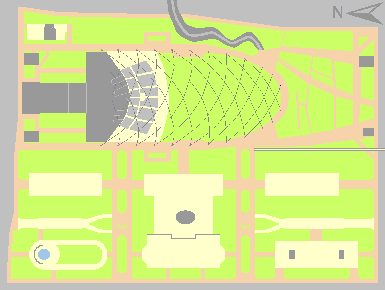 Map of Millennium Park in Chicago, Illinois, USA